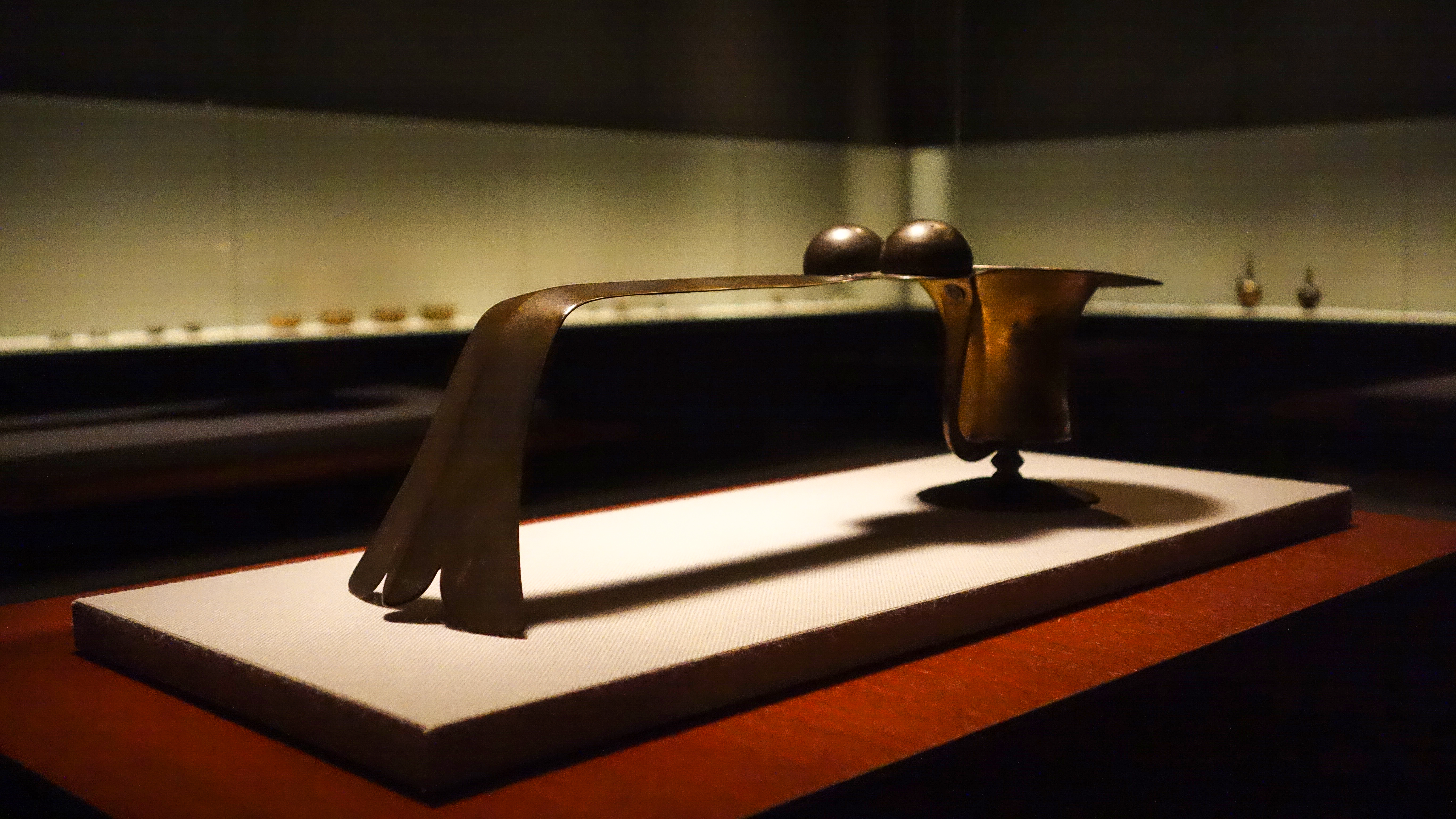 Japan, Tokyo national museum (the gallery of Hōryū-ji treasures): incense burner with handle in shape of magpie tail. With flower shaped pedestal and handle in shape of magpie tail; a part of the Hōryū-ji treasures which decated to Imperial Houshold in 1878. Asuka period, 7th century Incense burner; gilt bronze; 39.0 × 10.2 cm (15.4 × 4.0 in), diameter of censer 13.3 cm (5.2 in).